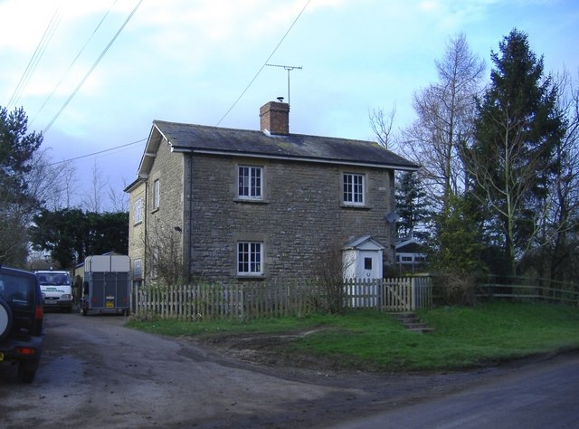 Station house, Great Somerford Formerly the station master's house, at Great Somerford Halt.